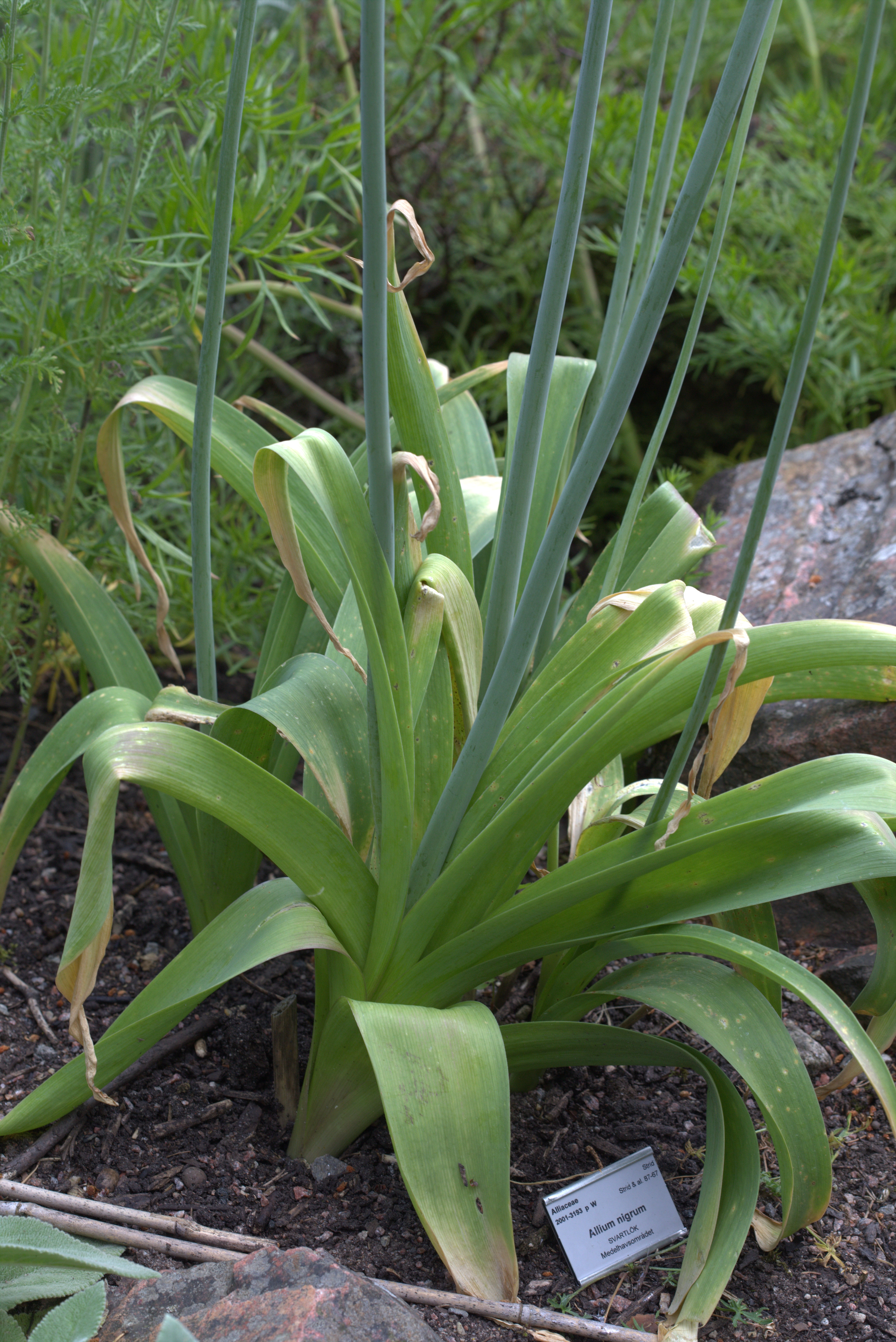 Allium nigrum in Gothenburg Botanical Garden 2015. Plant id: 2001-3193 p W.